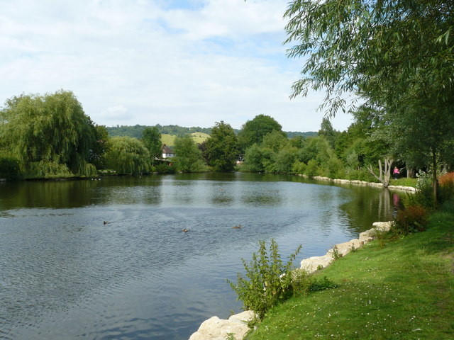 Millpond, Dorking, Surrey The old millpond, now maintained as a feature within the recreation ground. In the distance, Box Hill can be seen.